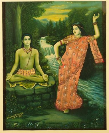 Vishwamitra was a respected rishi, or sage in ancient India. Lord Indra, frightened by his powers, sent a beautiful celestial nymph named Menaka from heaven to earth, to lure him and break his meditation. Menaka successfully incited Vishwamitra, and Shakuntala, their daughter was born. This artwork by Vasudeo Pandey was printed in Germany.